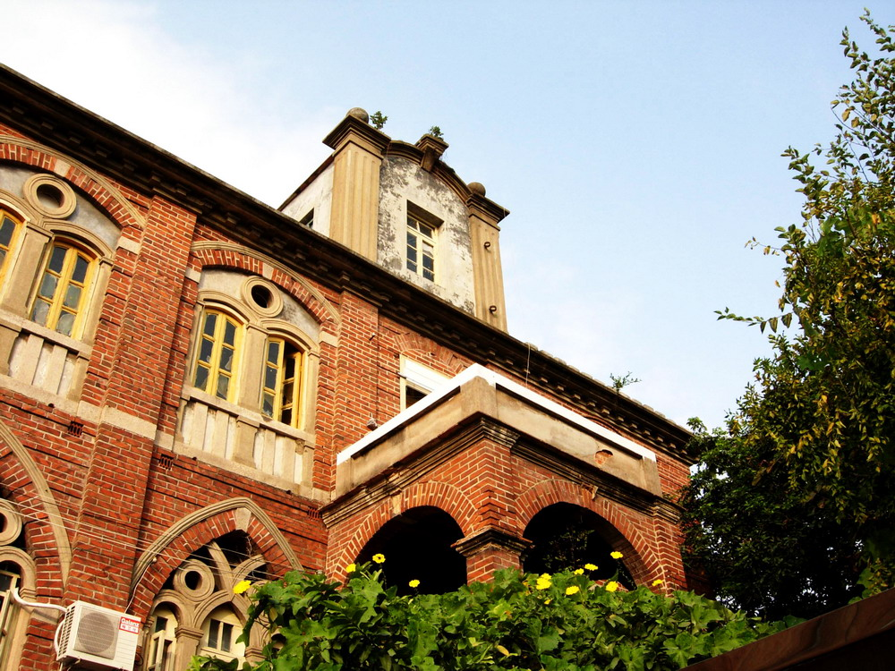 xiamen，gulangyu,old house